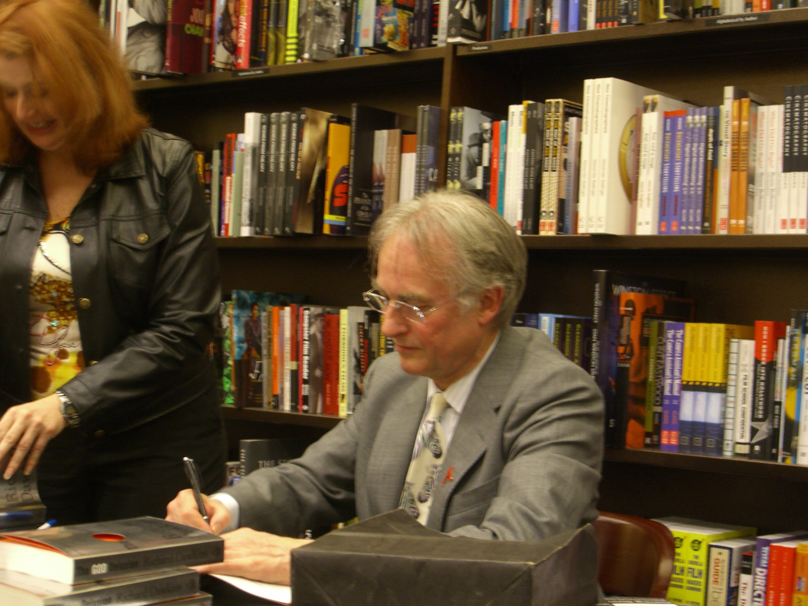 Professor Richard Dawkins at a book signing at Barnes & Noble in lower Manhattan, March 14, 2008.